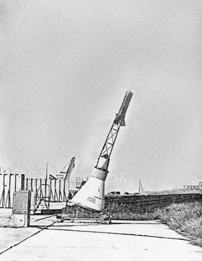 Mercury spacecraft #1 with escape system ready for firing for the Beach Abort test at NASA's Wallops Flight Facility.